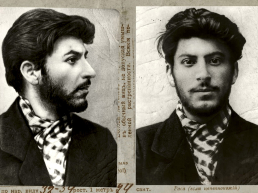 Police record, 1902, Stalin is 23 years old.